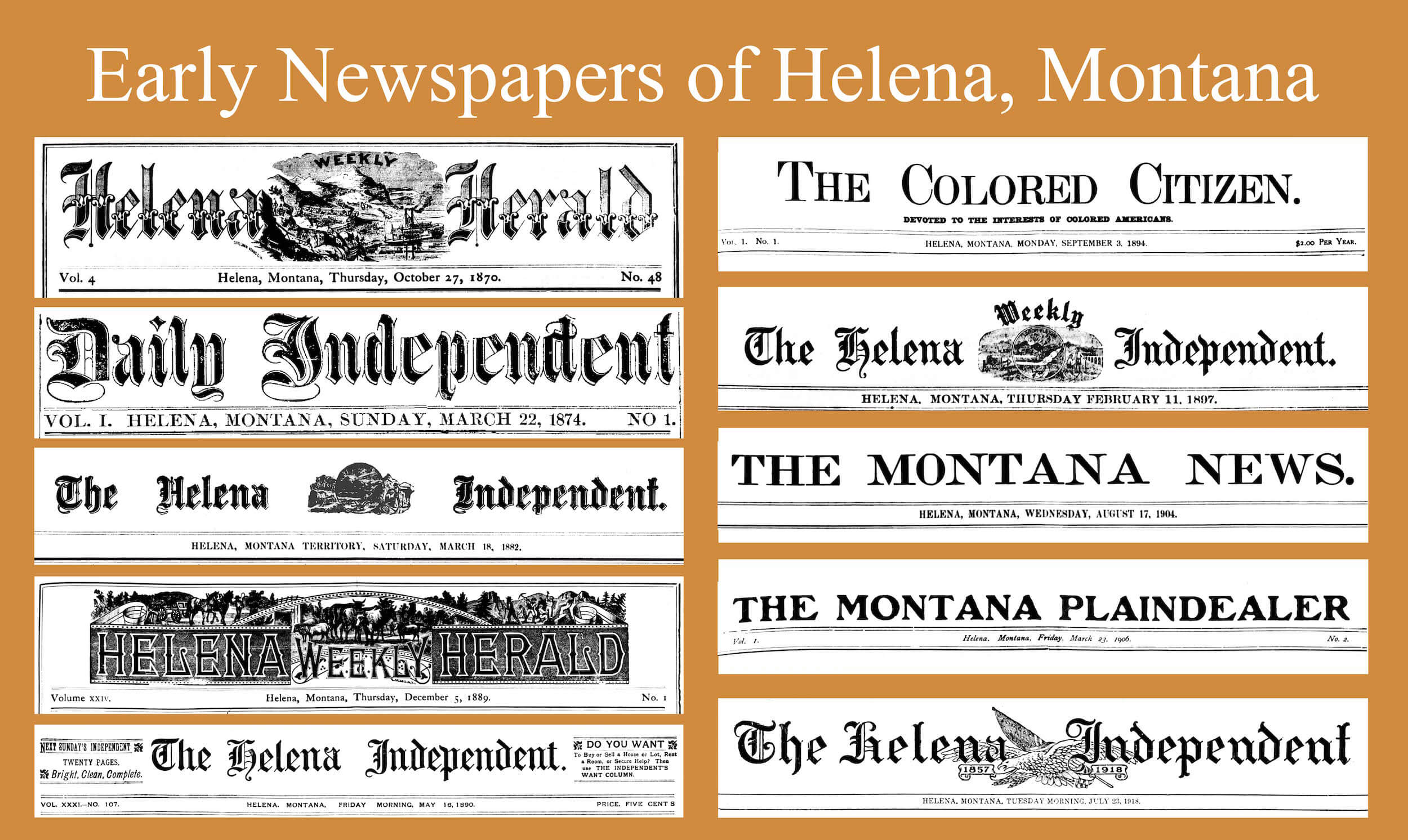 Front-page banners of early newspapers in Helena, Montana, U.S.